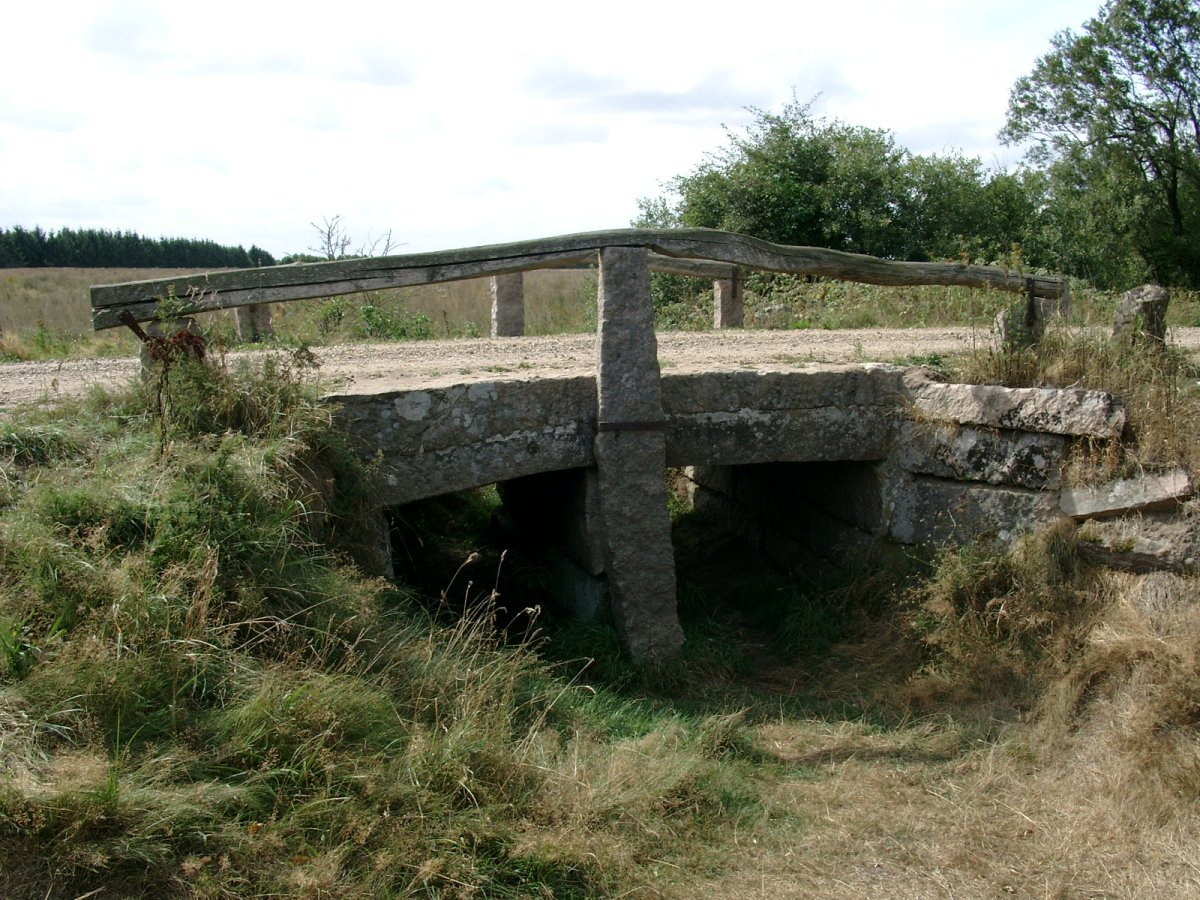 The old Immervad Bridge on Hærvejen (the old "army road") in southern Jutland in Denmark